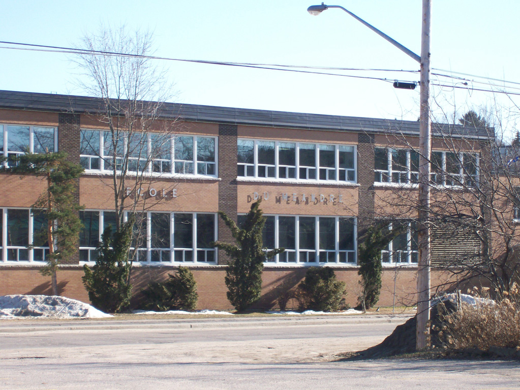 Méandre school in the burrough of L'Annonciation